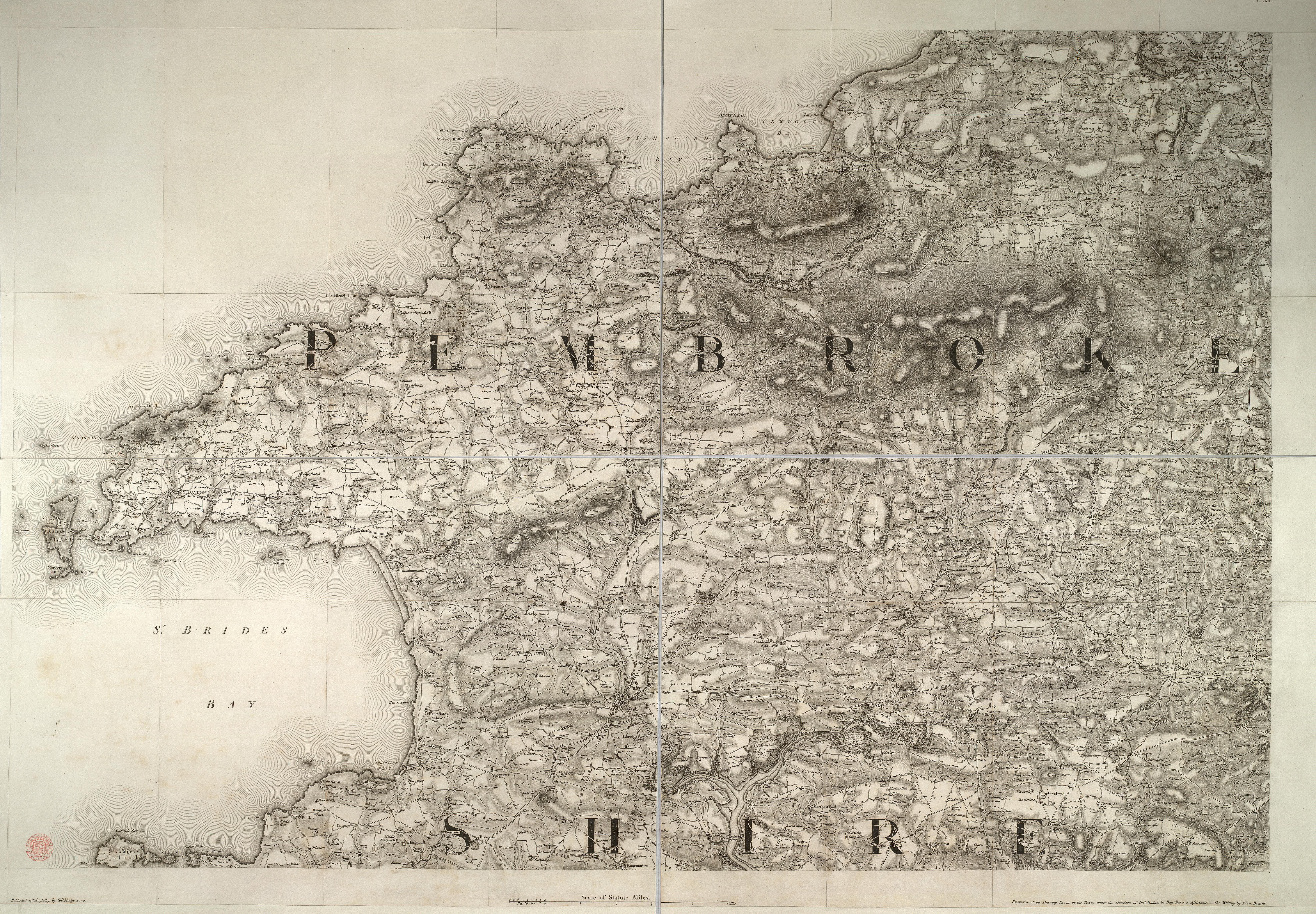 Ordnance survey map sheets - various sources Maps may include library stamps (eg Britsh Library etc) and pencil marks Filename suffix refers to sheet number